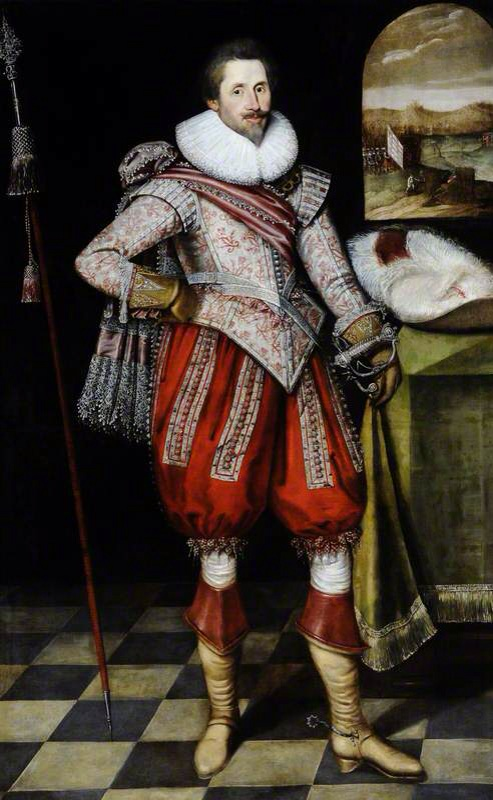 Portrait of Henry Cary, 1st Viscount Falkland (1575-1633), c. 1625